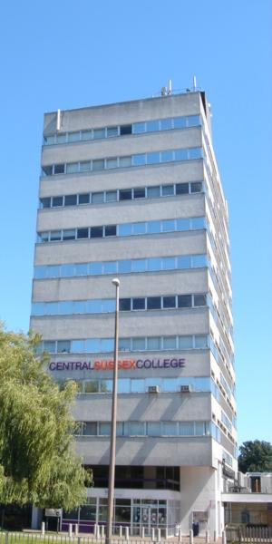 The main building at Central Sussex College in Crawley town centre. Photographed on 4th August 2007.